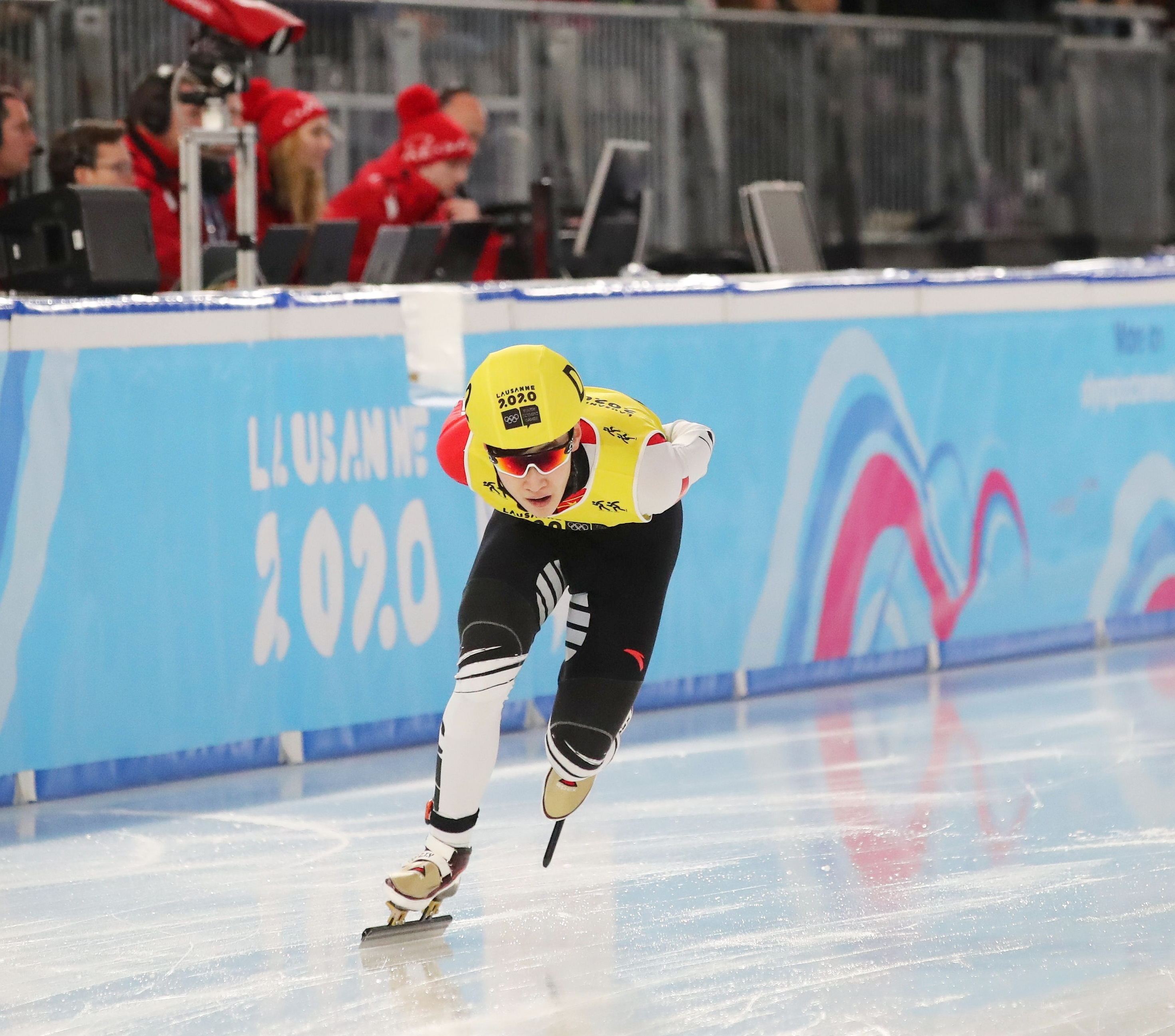 Final B of the Short Track Speed Skating – Mixed NOC Team Relay at the 2020 Winter Youth Olympics in Lausanne on 22 January 2020.